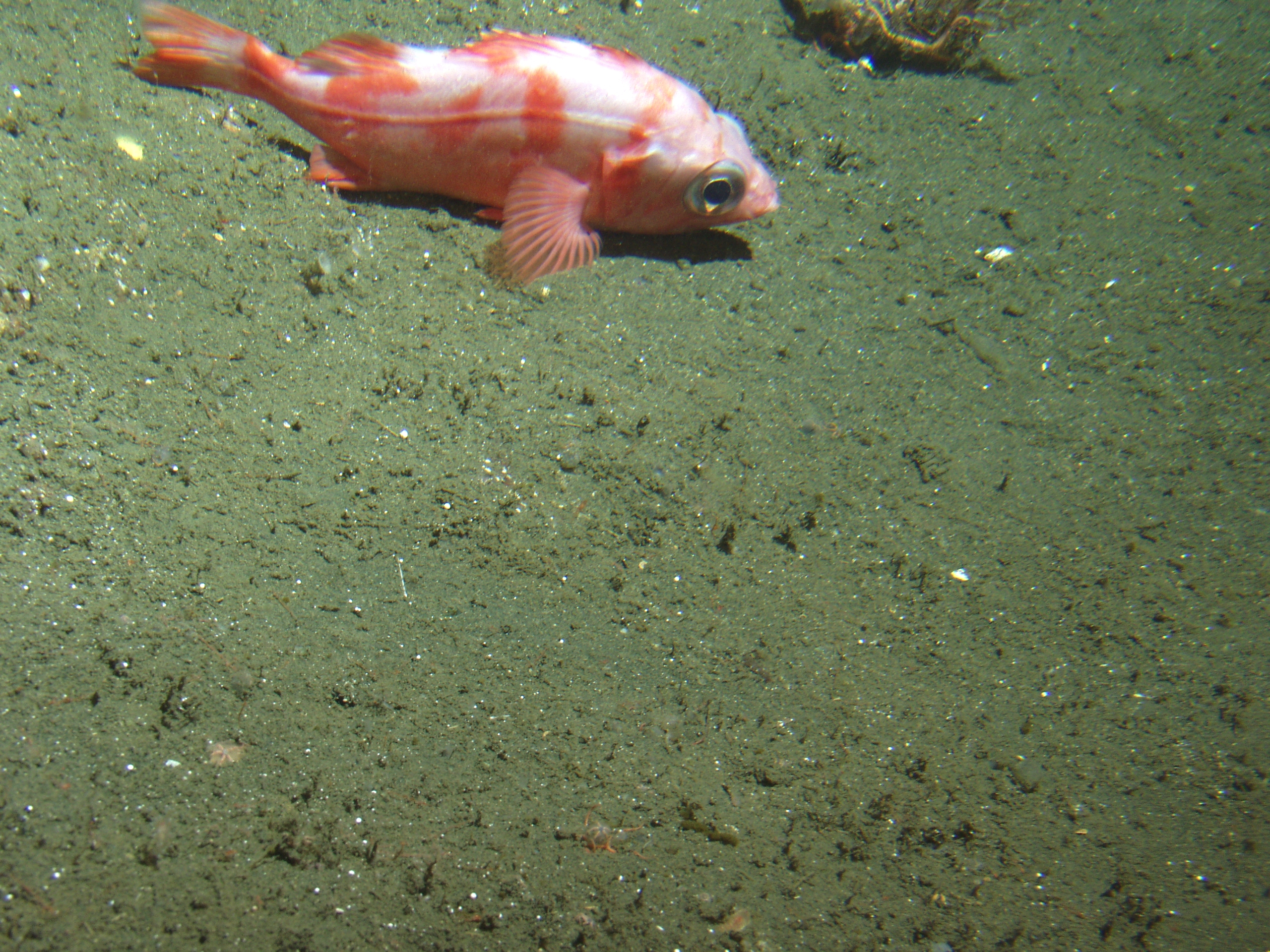 Splitnose rockfish (Sebastes diploproa) on soft bottom habitat at 302 meters. Latitude 38 03 N., Longitude 123 -31 W. California, Cordell Bank National Marine Sanctuary.